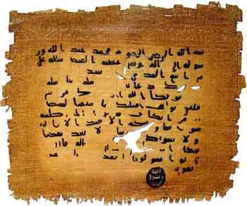 A copy of the letter of Muhammad to Muqawqis (discovered 1858); the image has been altered (background removed), c.f. this photograph.